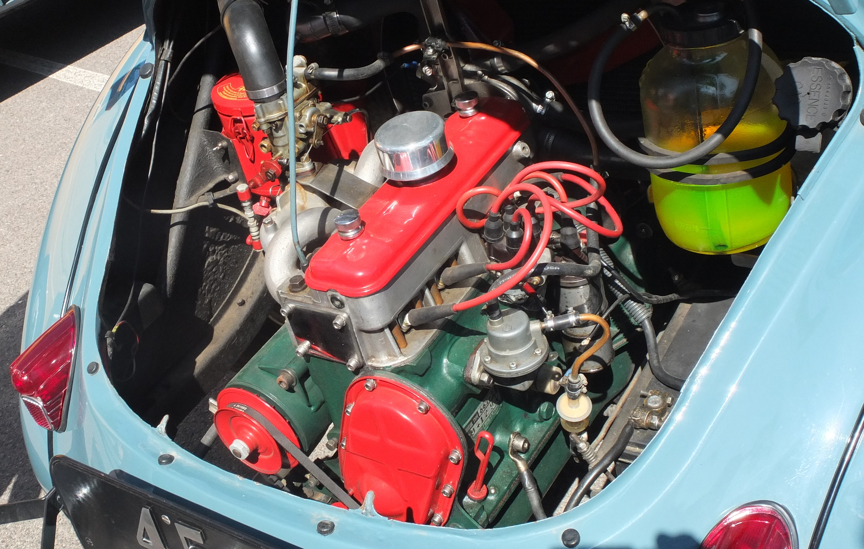 750cc engine of a 1961 Renault 4CV, seen at vintage car meeting in Perpignan, France.